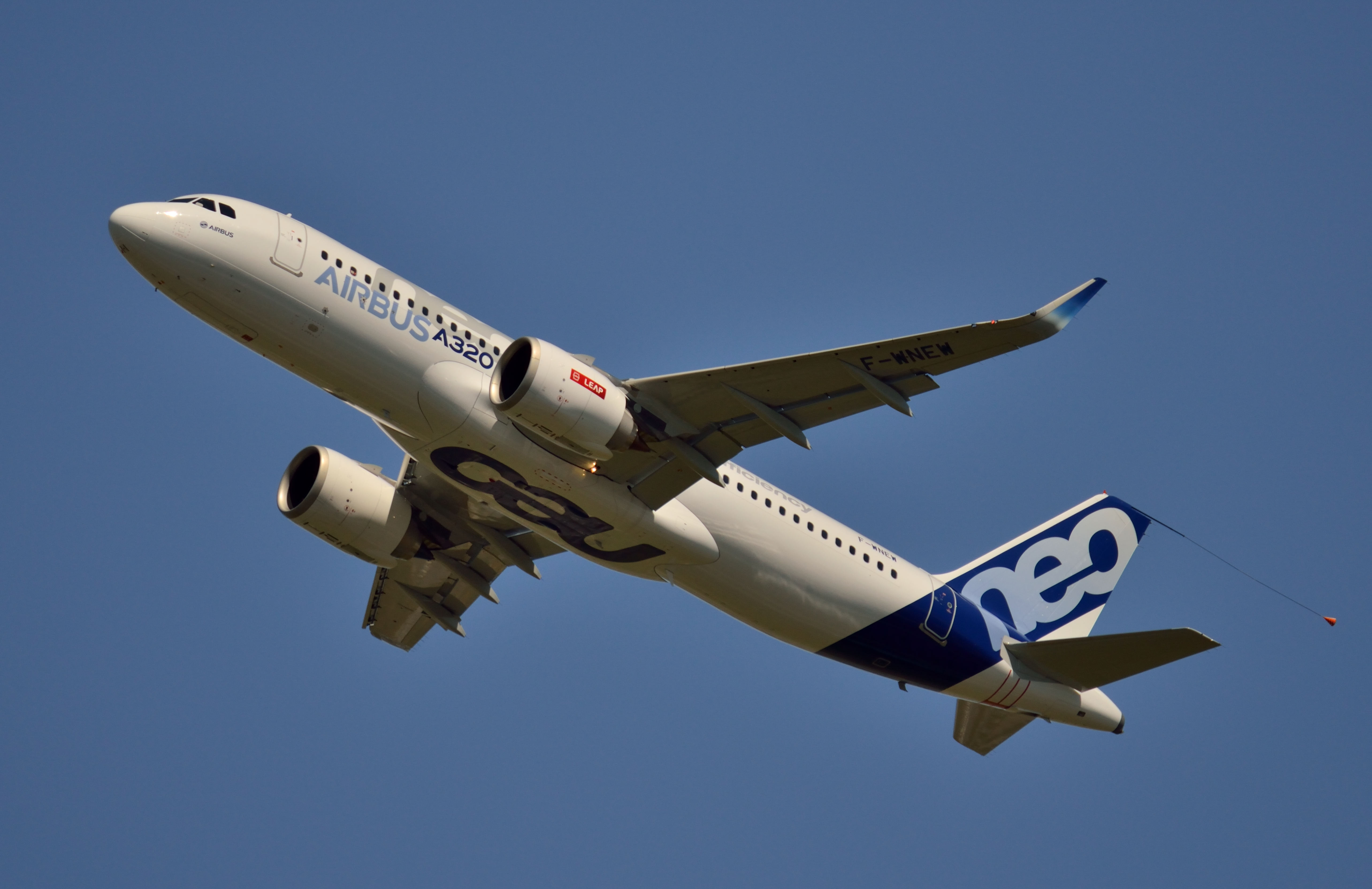 First A320neo with Leap engines.